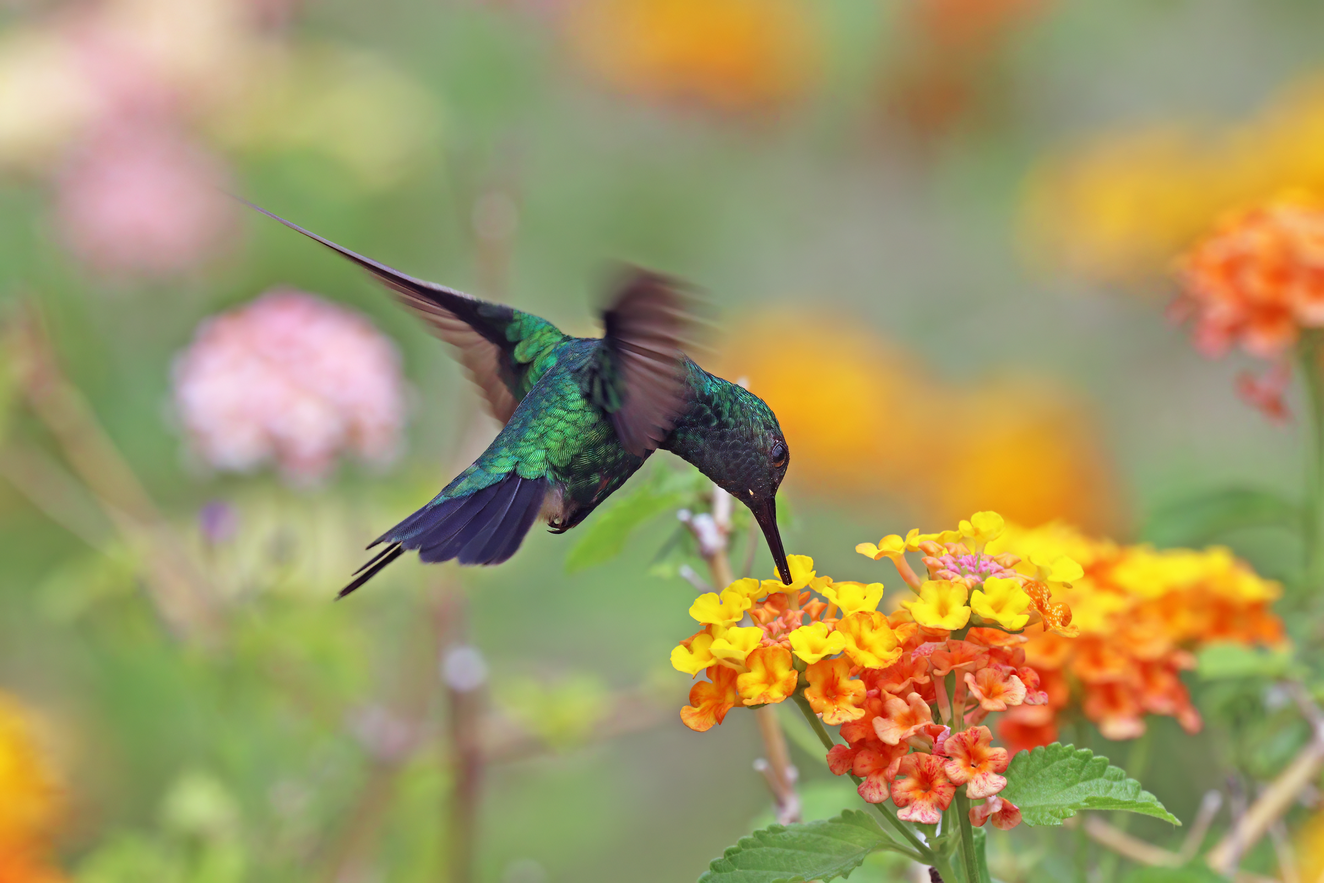 Garden emerald (Chlorostilbon assimilis) male in flight, Gamboa, Panama